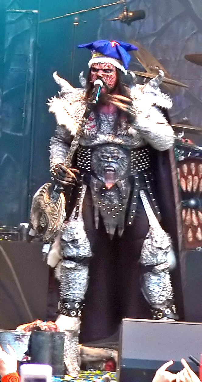 Mr. Lordi singing Bringing Back The Balls To Rock